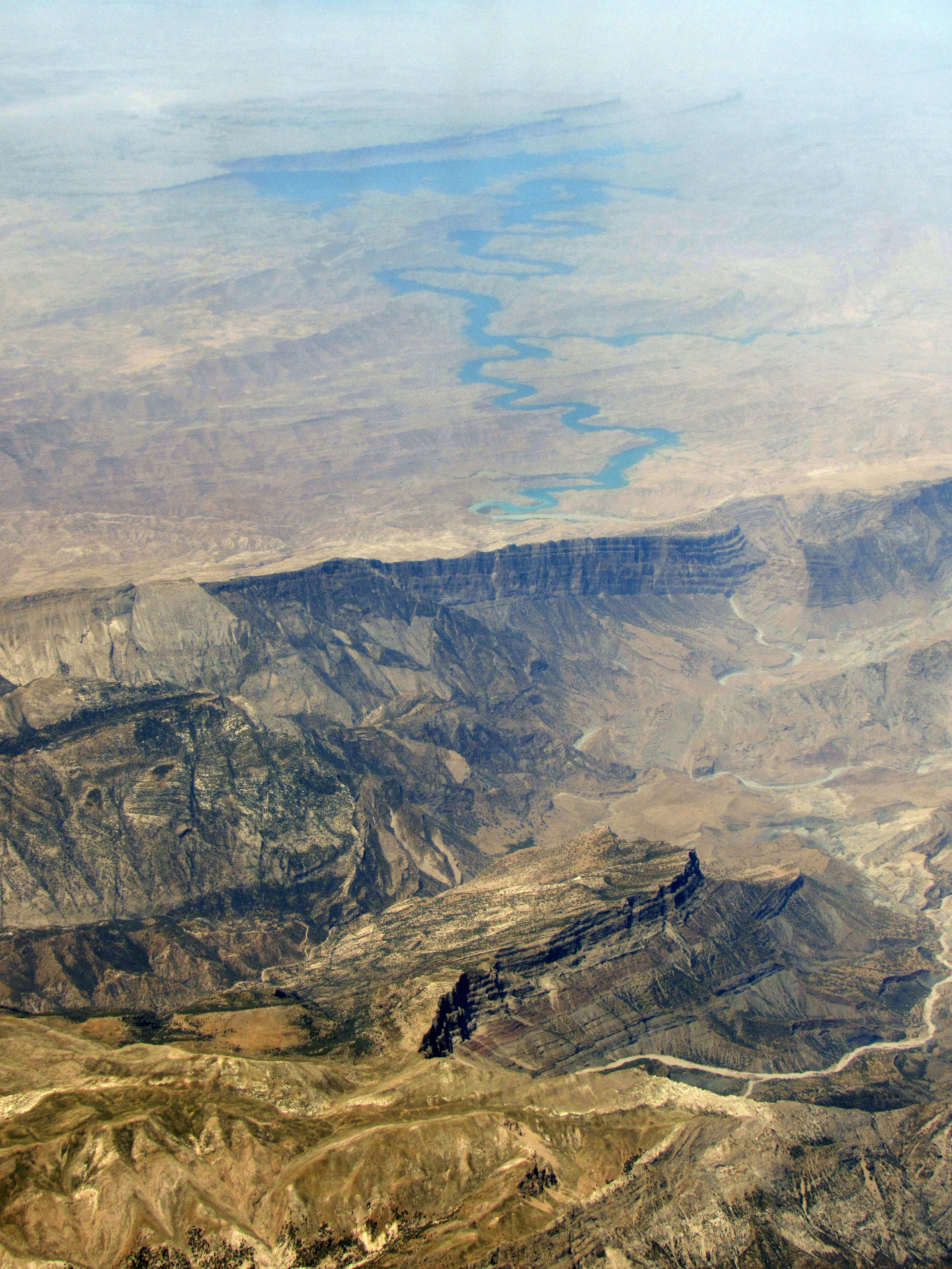 Aerial photograph of the Dez Reservoir (background).